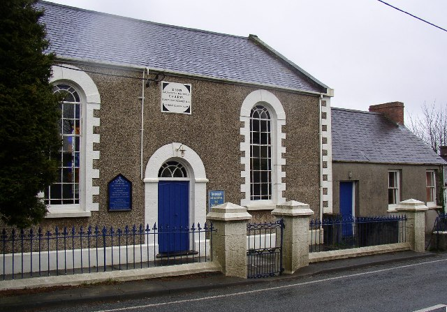 Zion Chapel, Begelly. Zion Calvinistic Methodist Chapel, on the A478 road, was founded in 1828 and rebuilt in 1866. Was the little cottage next door let to the caretaker?